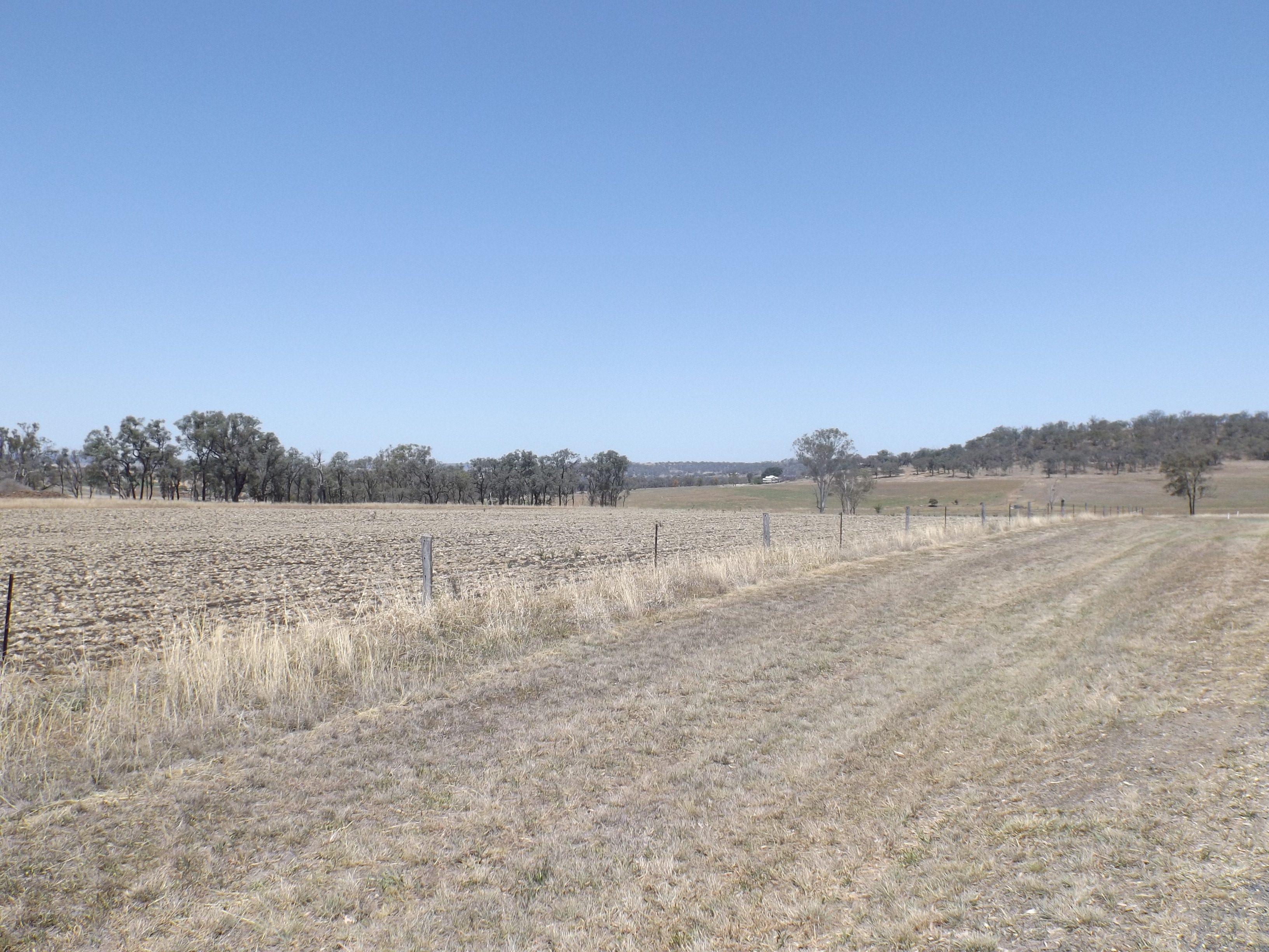 Photo of fields at Broxburn, Queensland, Australia.